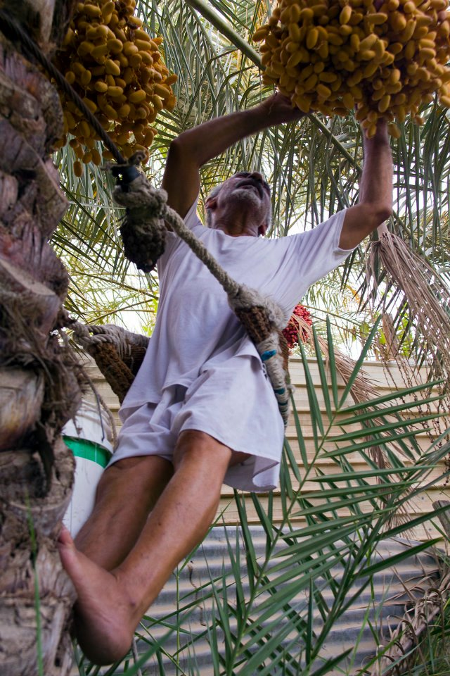 Qatifi farmer collecting date palm